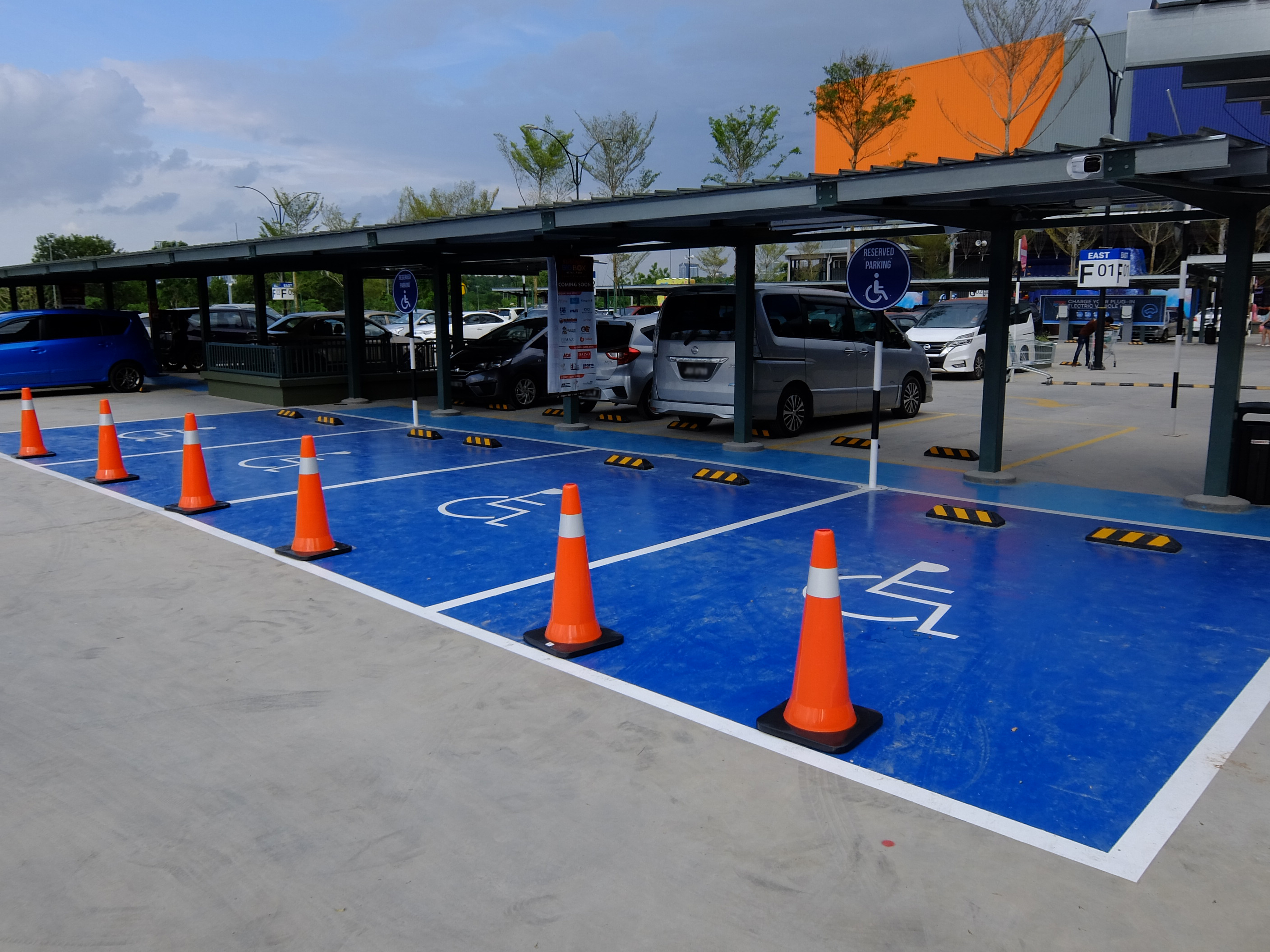 Sunway Big Box, Sunway Iskandar, Iskandar Puteri, Johor Bahru, Johor, Malaysia